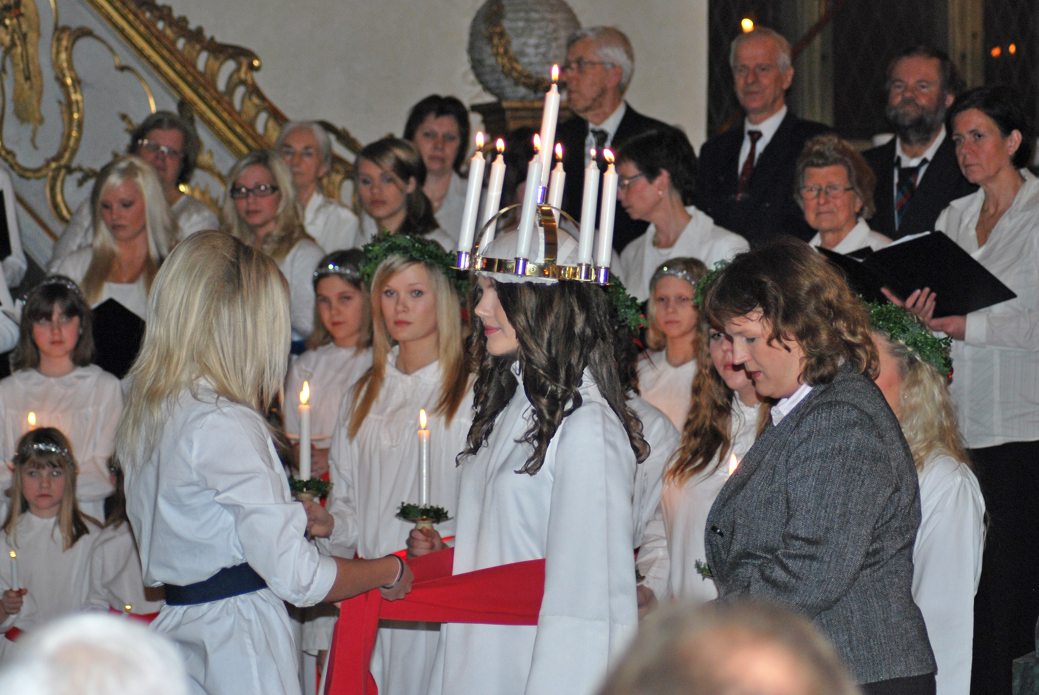 The crowning of a lucia in Sweden